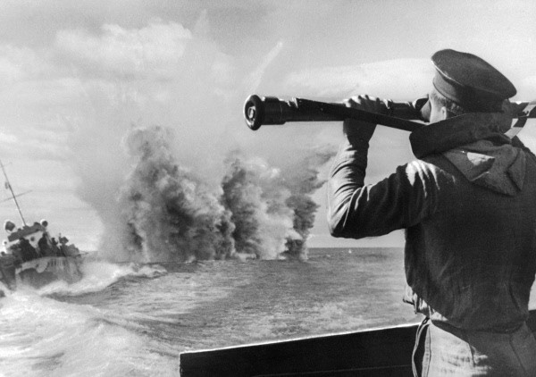 “Observation”. A sailor observing the results of depth bombing of submarines.